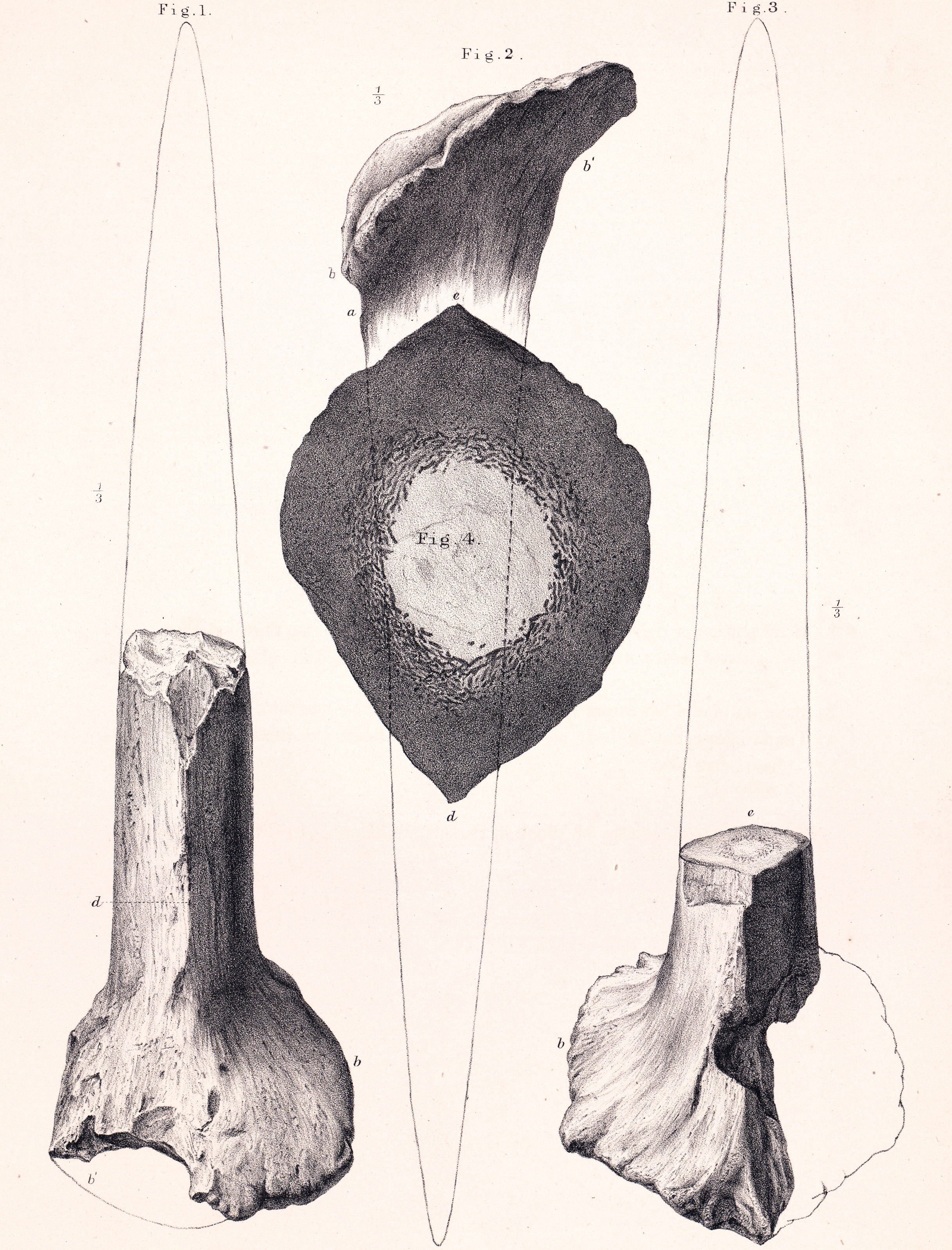 Omosaurus hastiger. Fig. 1. Basal portion of right carpal spine, completed in outline: one third nat. size. Fig. 2. Side view of basal portion of right carpal spine, completed in outline: one third nat. size. Fig. 3. Basal portion of left carpal spine, completed in outline: one third nat. size. Fig. 4. Transverse section of body of left carpal spine, taken one third from the articular base: nat. size. From the Kimmeridge Clay of Wootton Bassett, Wiltshire. In the British Museum.